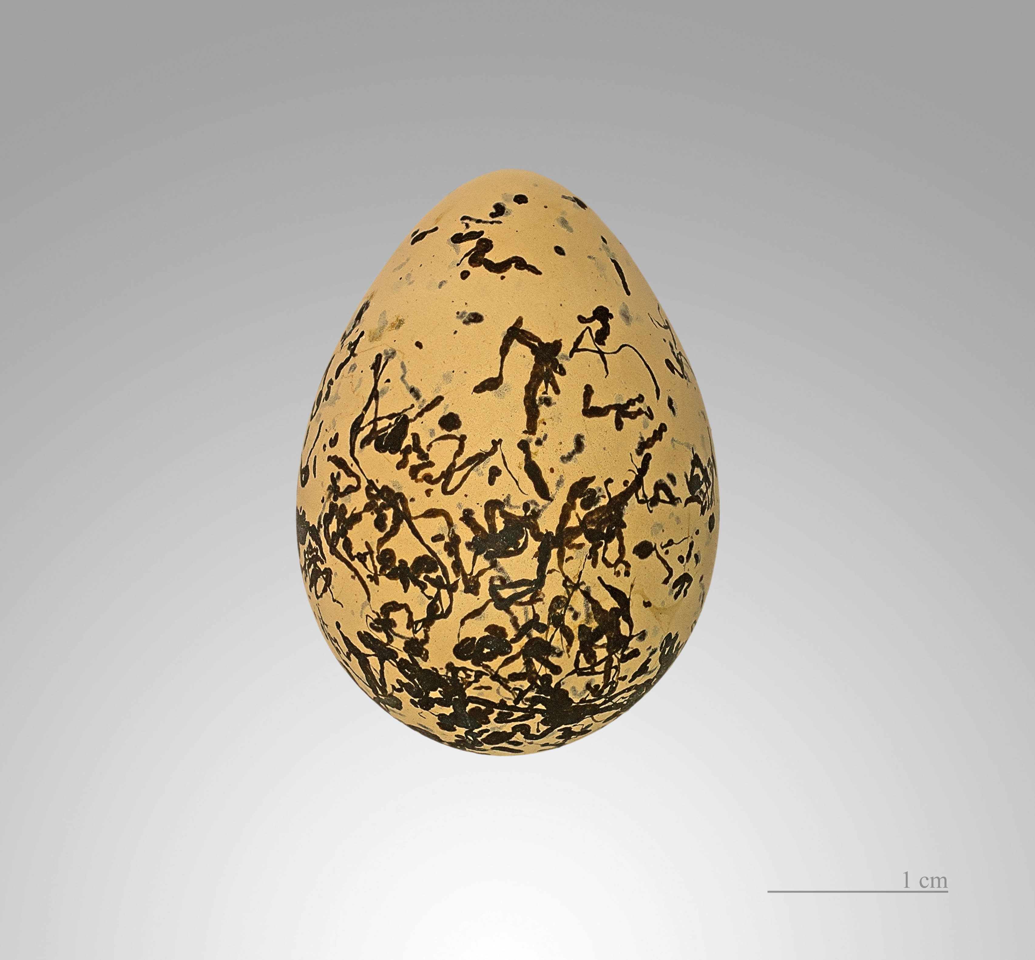 Egg of Kentish Plover. Collection of Jacques Perrin de Brichambaut.